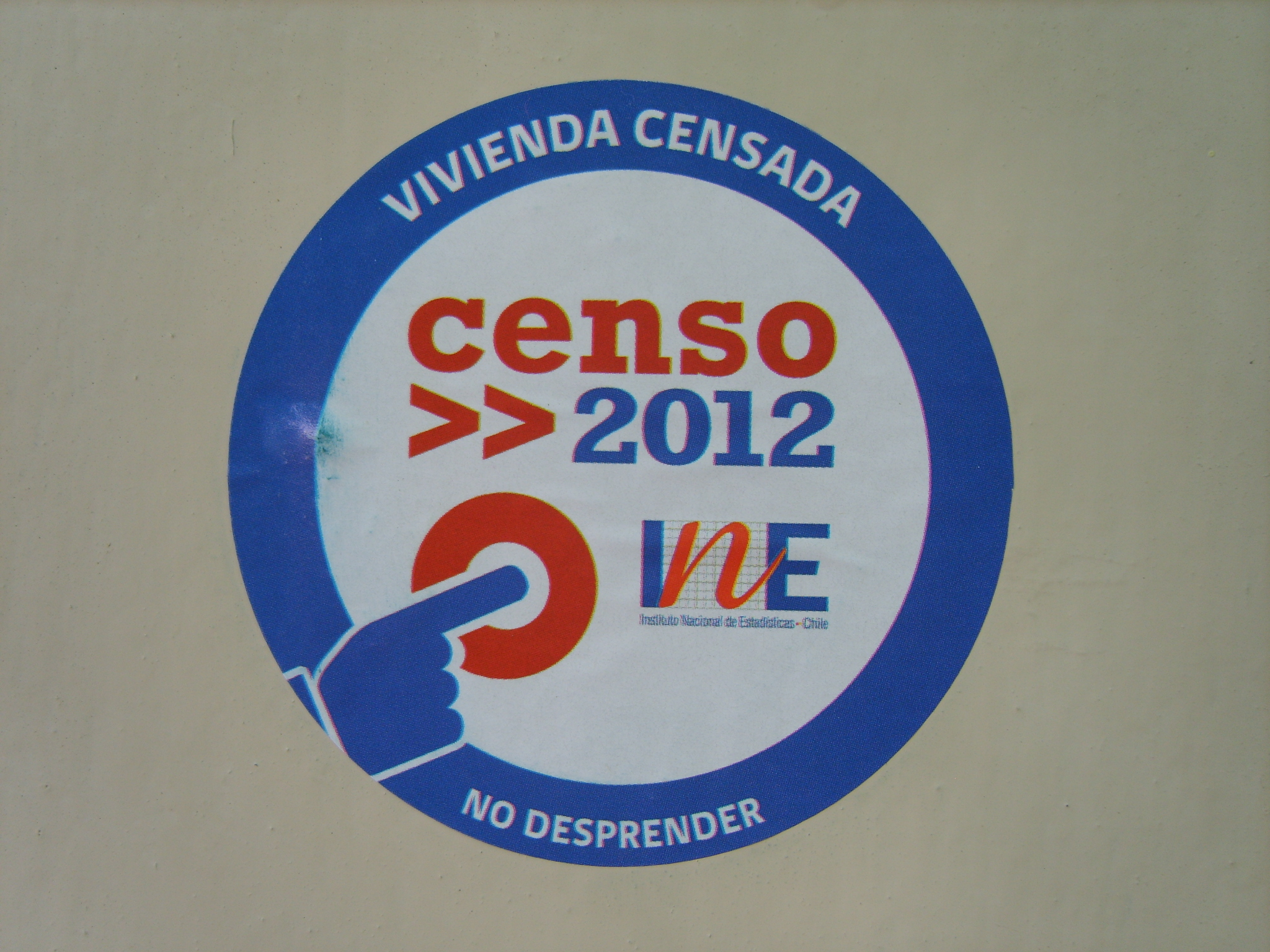 Sticker identifying a house that has been surveyed on the 2012 Chilean Census.